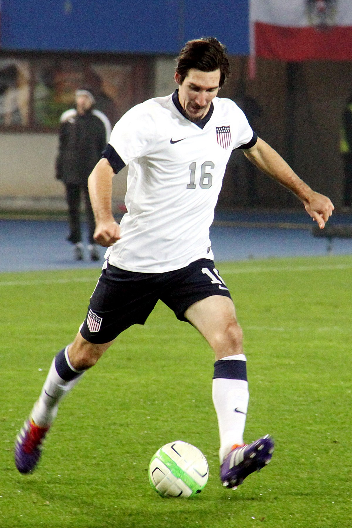 Friendly-match Austria vs. USA (1:0) in the Ernst-Happel-Stadion in Vienna at 2013-03-22. – The photo shows Sacha Kljestan (USA).